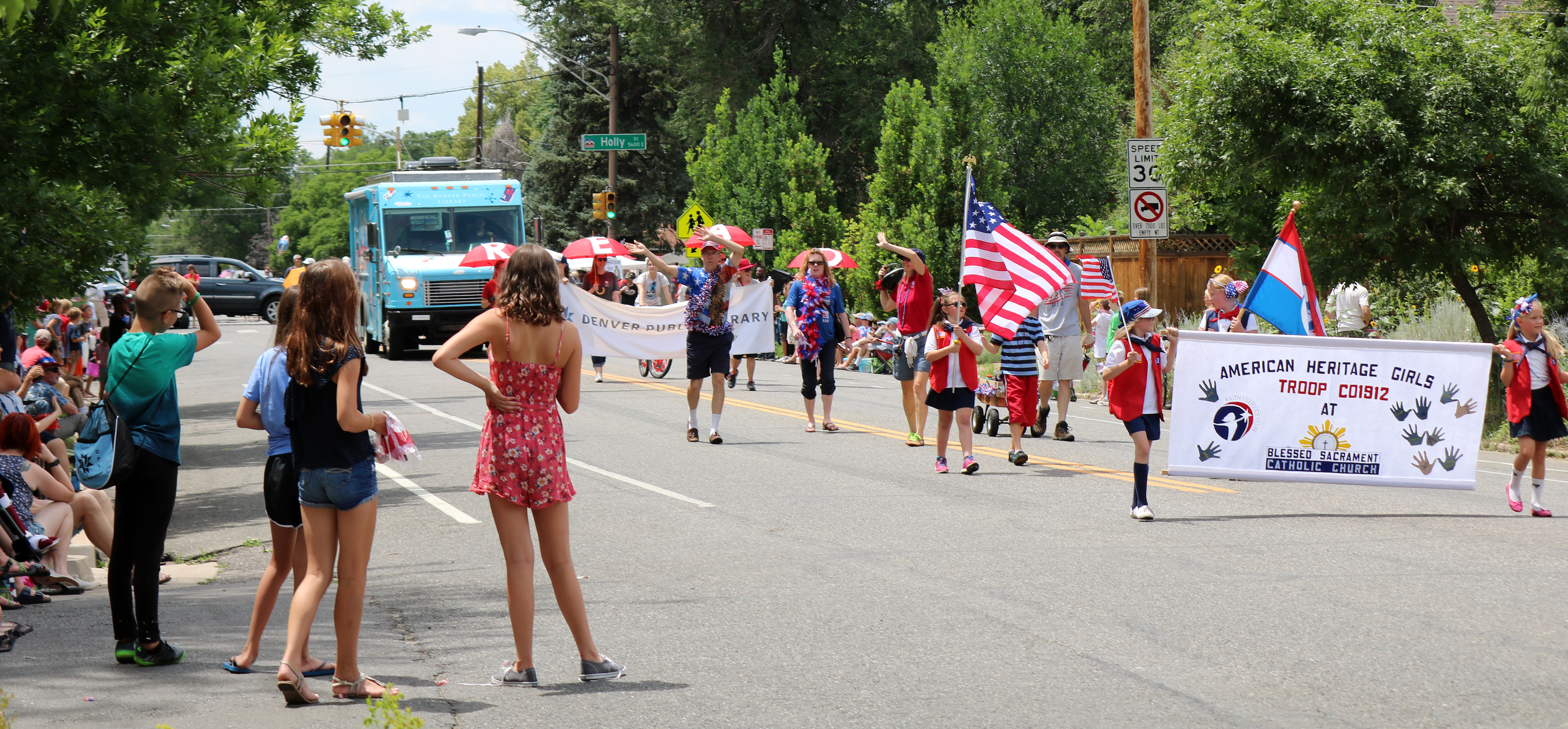 A view of part of the annual Fourth of July parade in Denver, Colorado's Park Hill neighborhood.